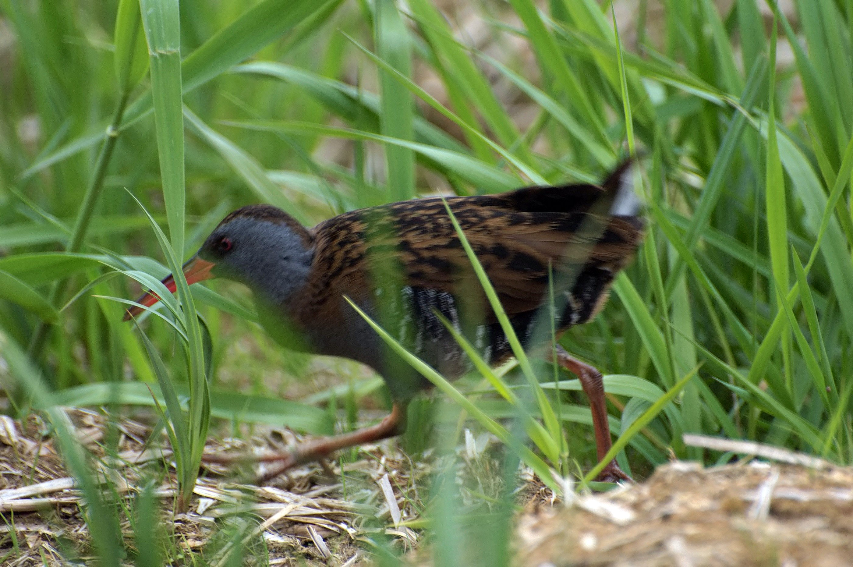 Water Rail Rallus aquaticus. Egleton, Rutland Water, England.